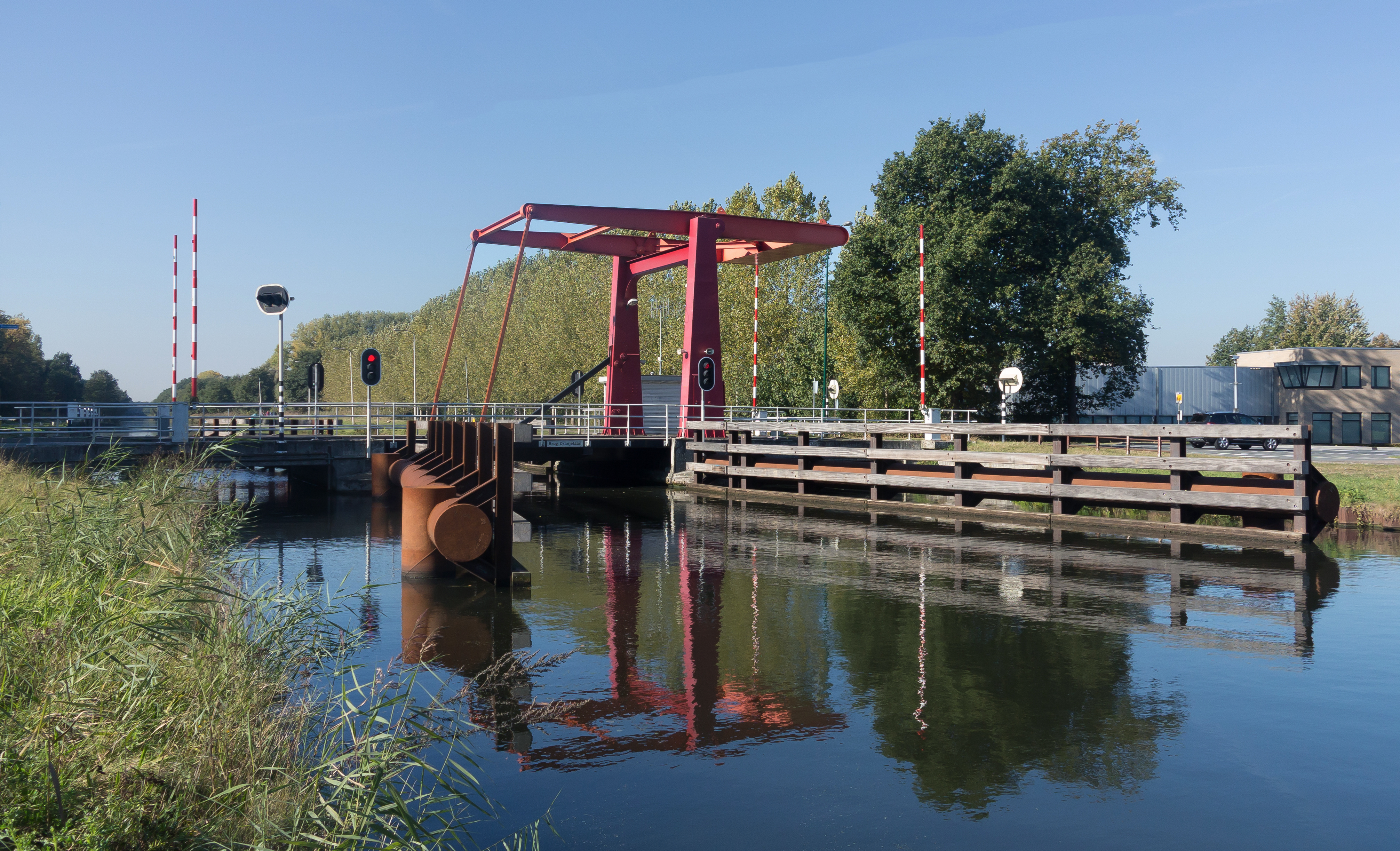 Beek en Donk, drawbridge at the Oranjelaan; the building in the background is home to Nossin Fijnmechanische Industrie B.V.